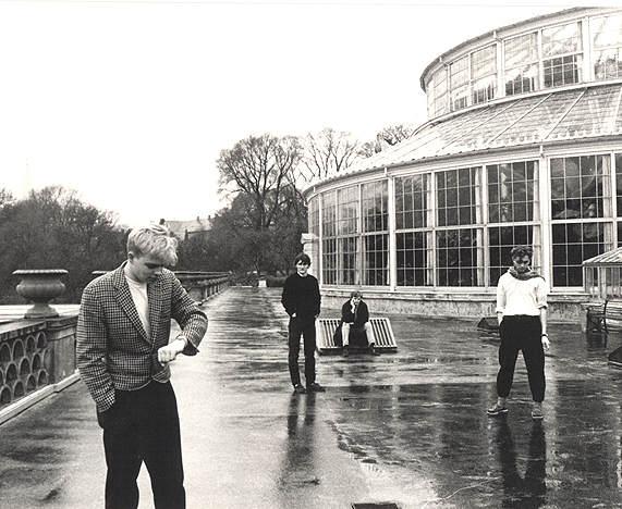 The Danish band Alter Ego on the terrace of the Botanical Garden in Copenhagen, Denmark. The photo is taken i 1985 and has been released in the public domain